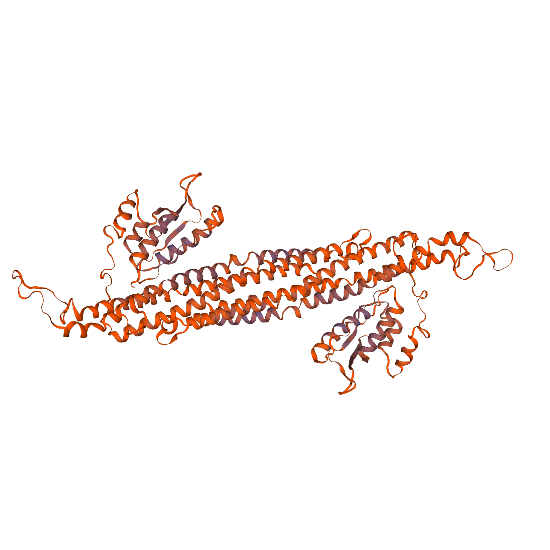 3D representation of the SNX8 protein made with swissmodel.